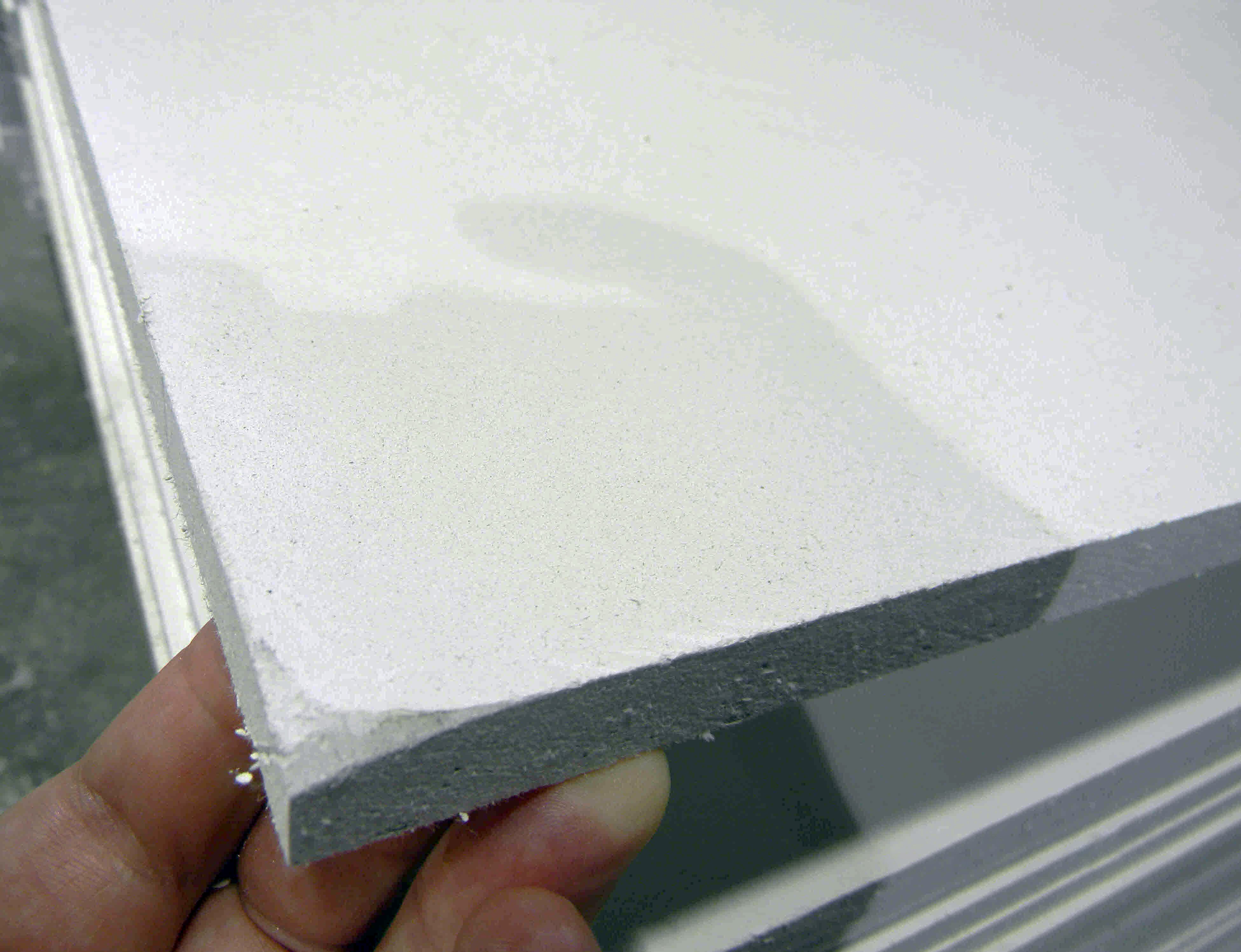 Promatect 250 Calcium Silicate Sheets.